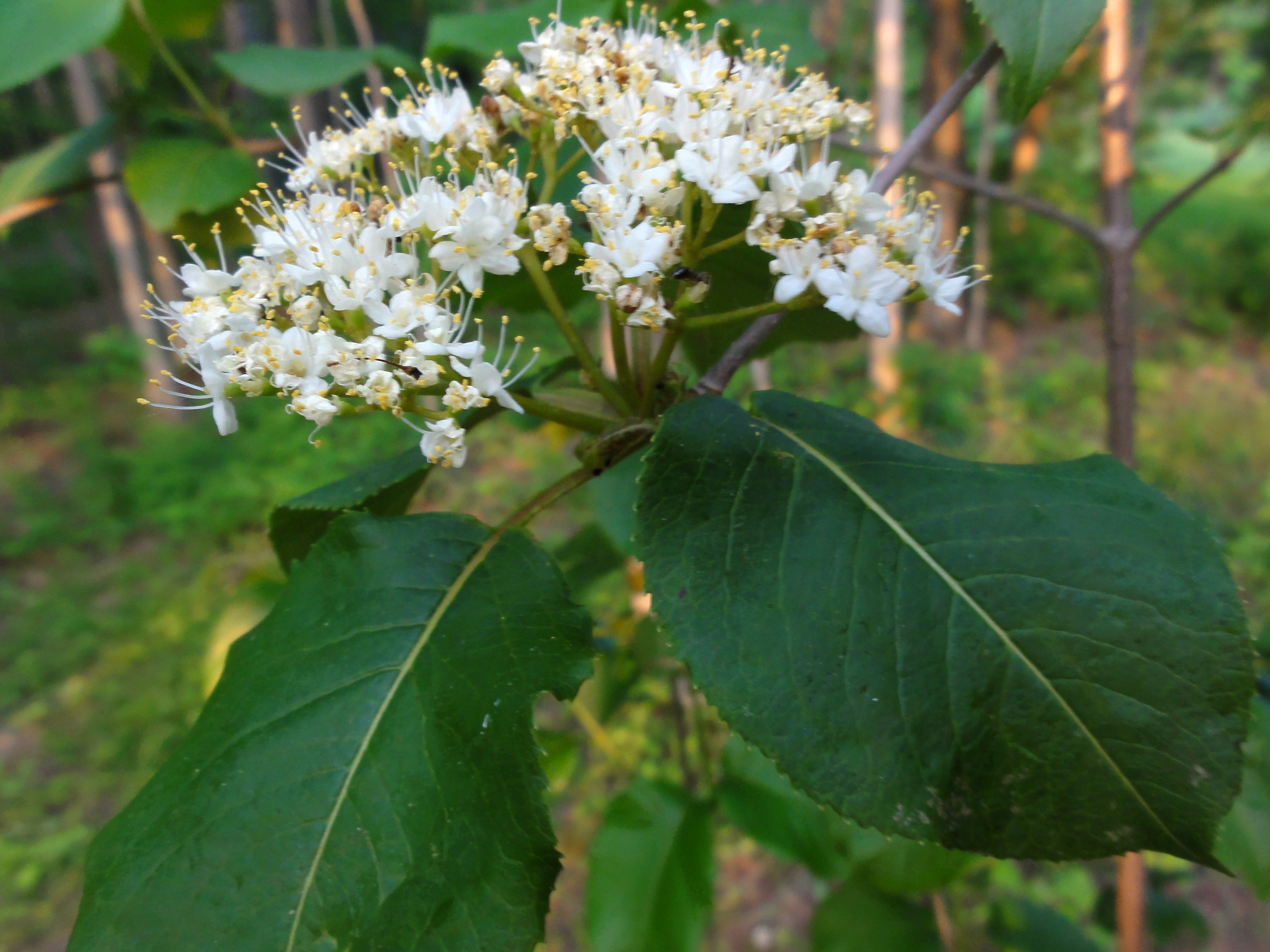 Viburnum lentago L. - Nannyberry. Photographed in the Town of Skaneateles, Onondaga County, New York.